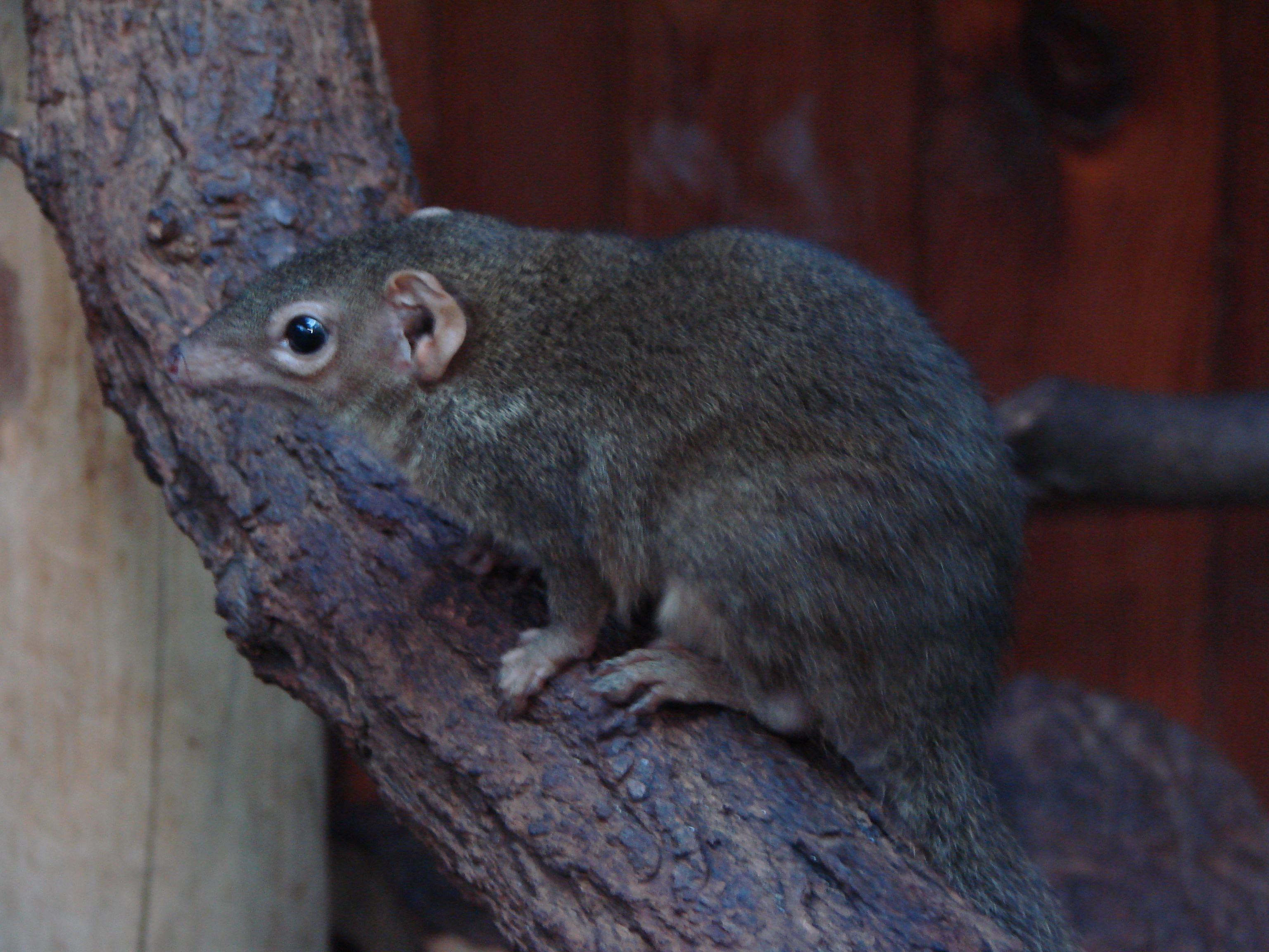 Animal species: Northern Treeshrew (Wrocław zoo)